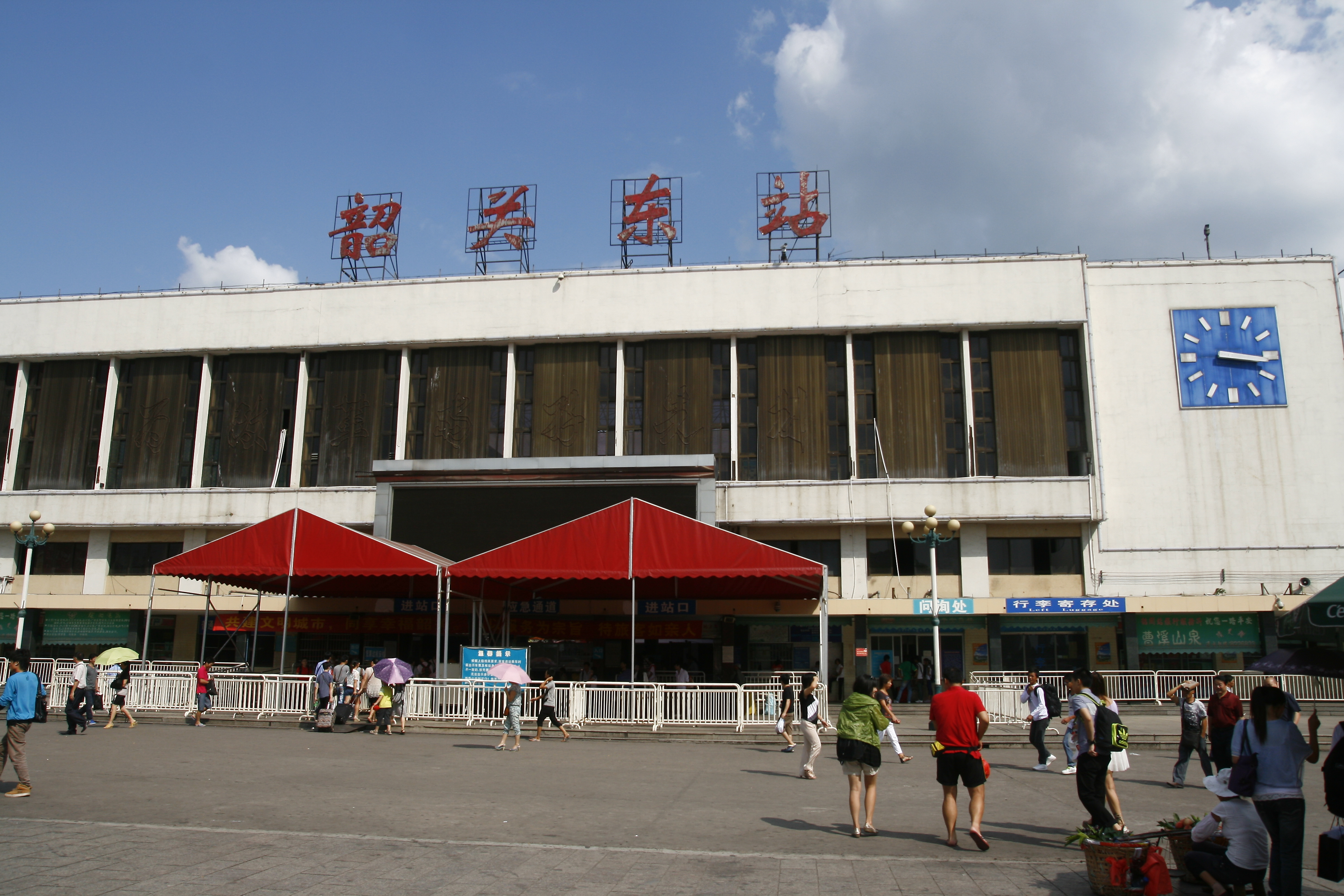 Shaoguan East Railway Station